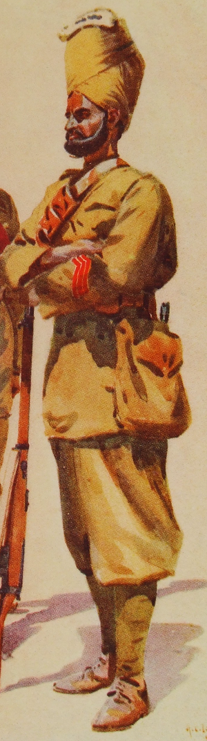 Soldier of the British Indian Army's 108th Infantry